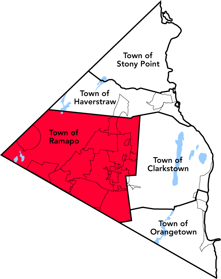 I made this file. Salvo 08:32, 20 February 2006 (UTC)